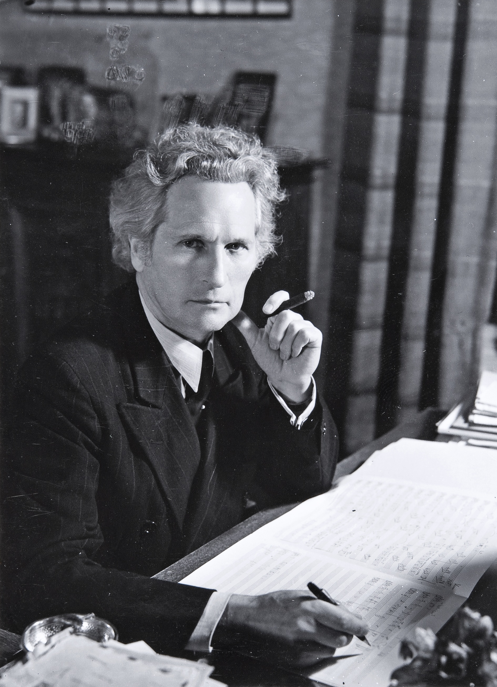 Photograph of the Finnish composer Yrjö Kilpinen (1892–1959).